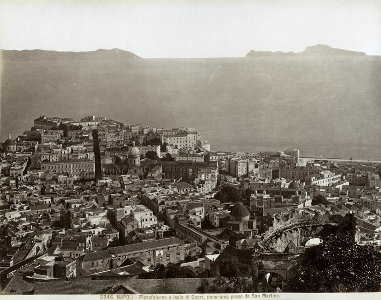 Giacomo Brogi (1822-1881) - "Naples - Pizzofalcone and Isle of Capri, panorama taken from San Martino". Catalogue # 5246.